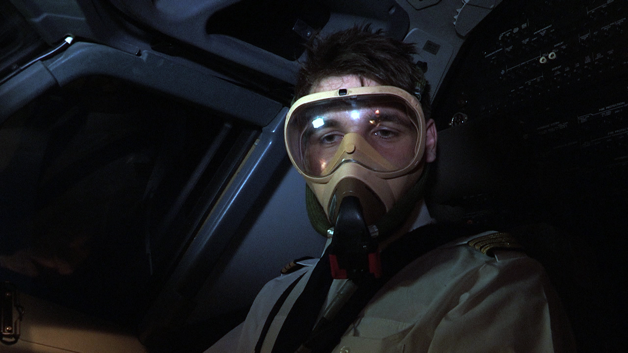 Still picture from the documentary "Unfiltered Breathed In - The Truth about Aerotoxic Syndrome" depicting a pilot with oxygen mask during a fume event